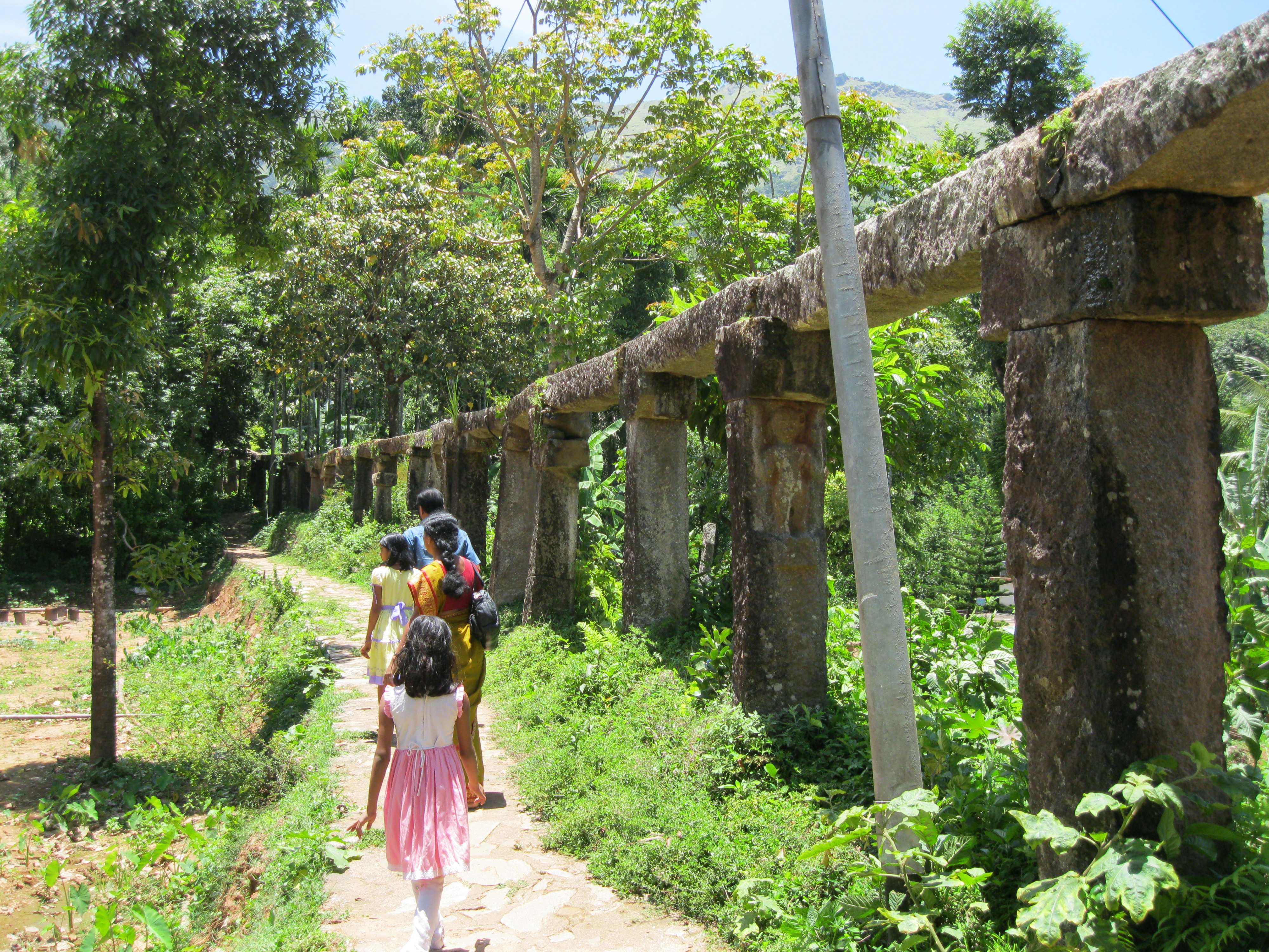 stone pipeline at thirunelli temple ,kerala,indi, getting water from far away hills